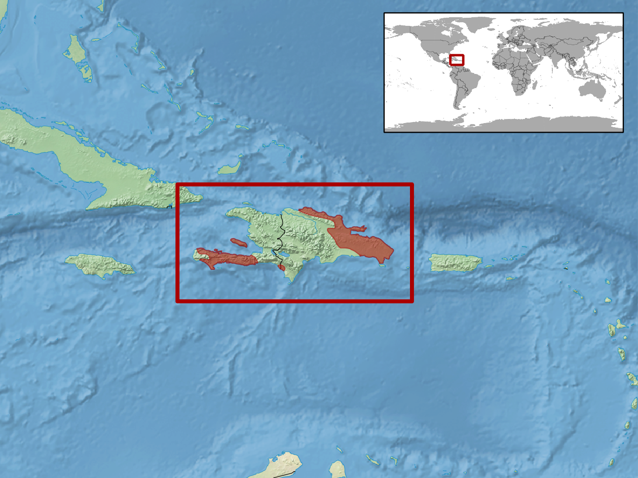 geographic distribution of Celestus sepsoides (Native: Dominican Republic; Haiti)